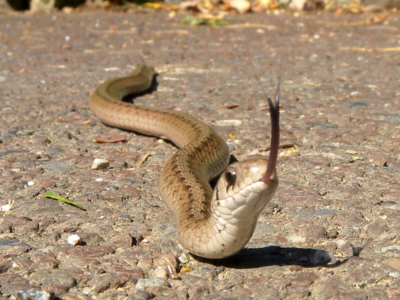 "Storeria dekayi dekayi, Northern Brown Snake, is commonly seen in spring and fall in my garden. Today it was on the driveway at lunchtime. I tried out my wife's new camera."